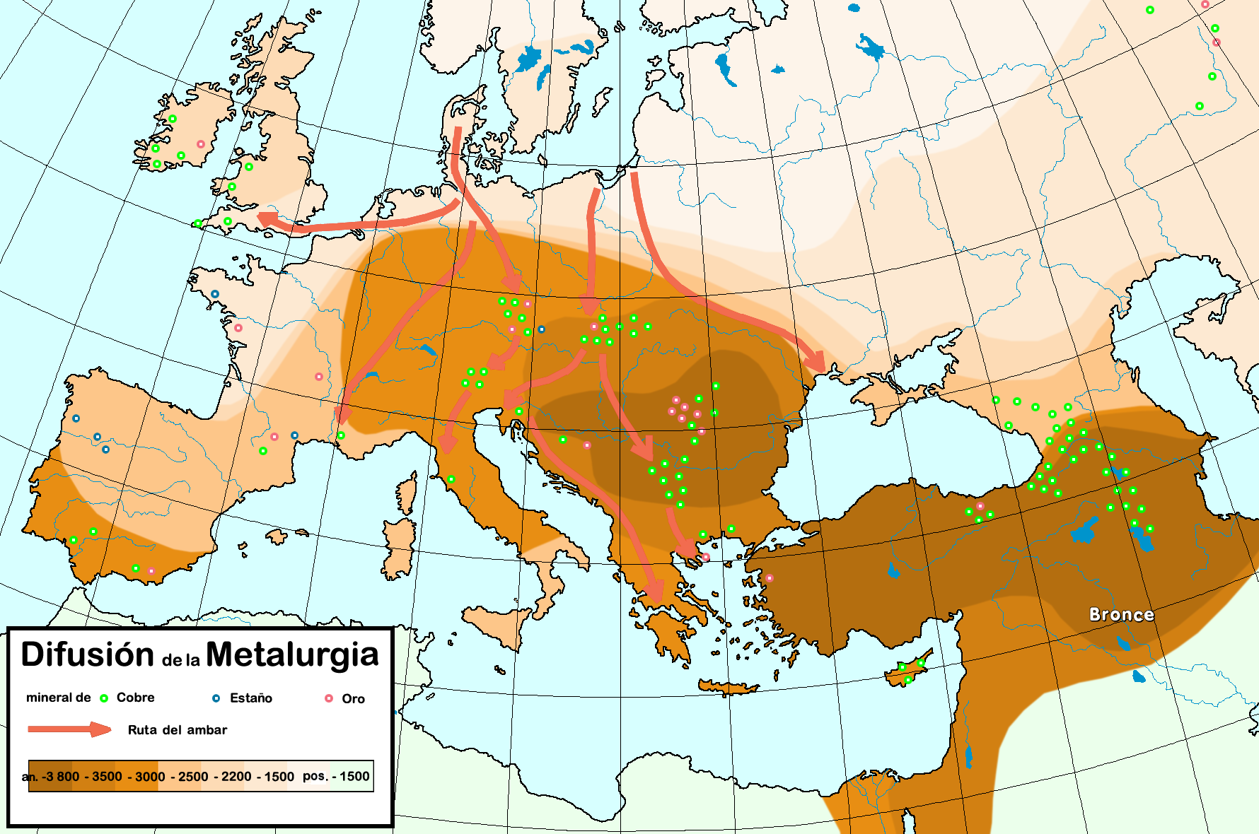 Metallurgy expansion area on Bronze Age (labels in Spanish).